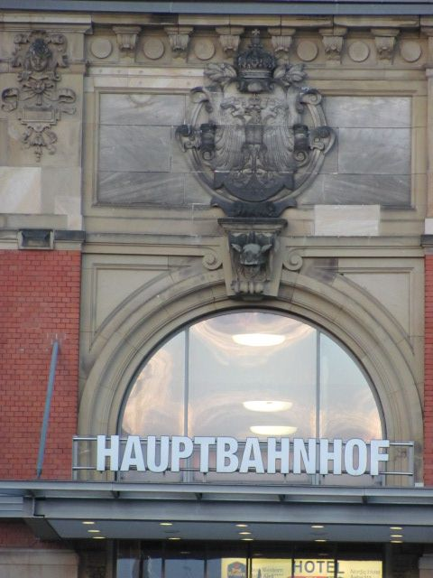 Kiel central station. Eagle on top of the pre-1918 imperial entrance